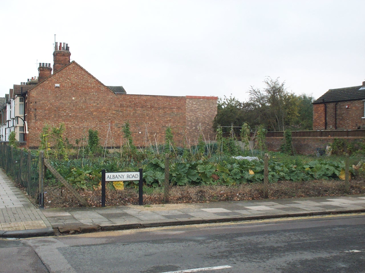 Allotments on the corner of Albany Road and Castle Road in Bedford, Bedfordshire, England. Owned by the Panacea Society and supposedly part of the original Garden of Eden. Not a fruit tree to be seen.